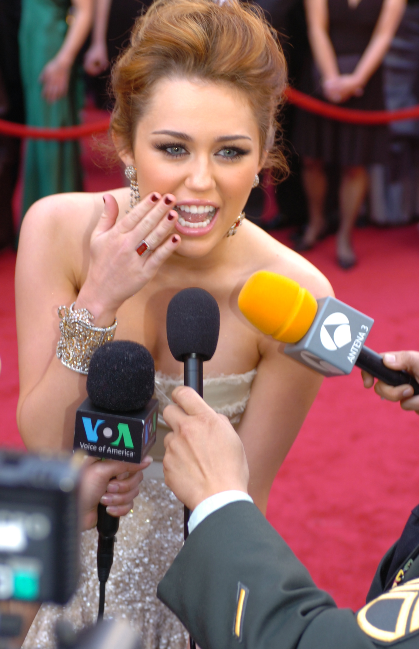 Miley Cyrus gives a shout-out to troops at the 82nd Academy Awards, March 7, in Hollywood, Calif.